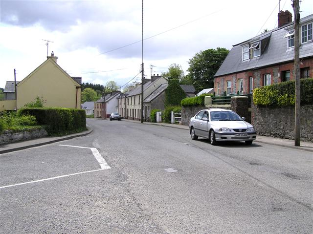 Pettigoe, County Donegal Looking east.